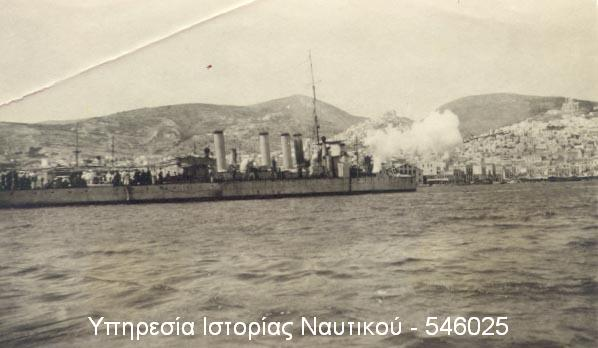 Greek destroyer Leon